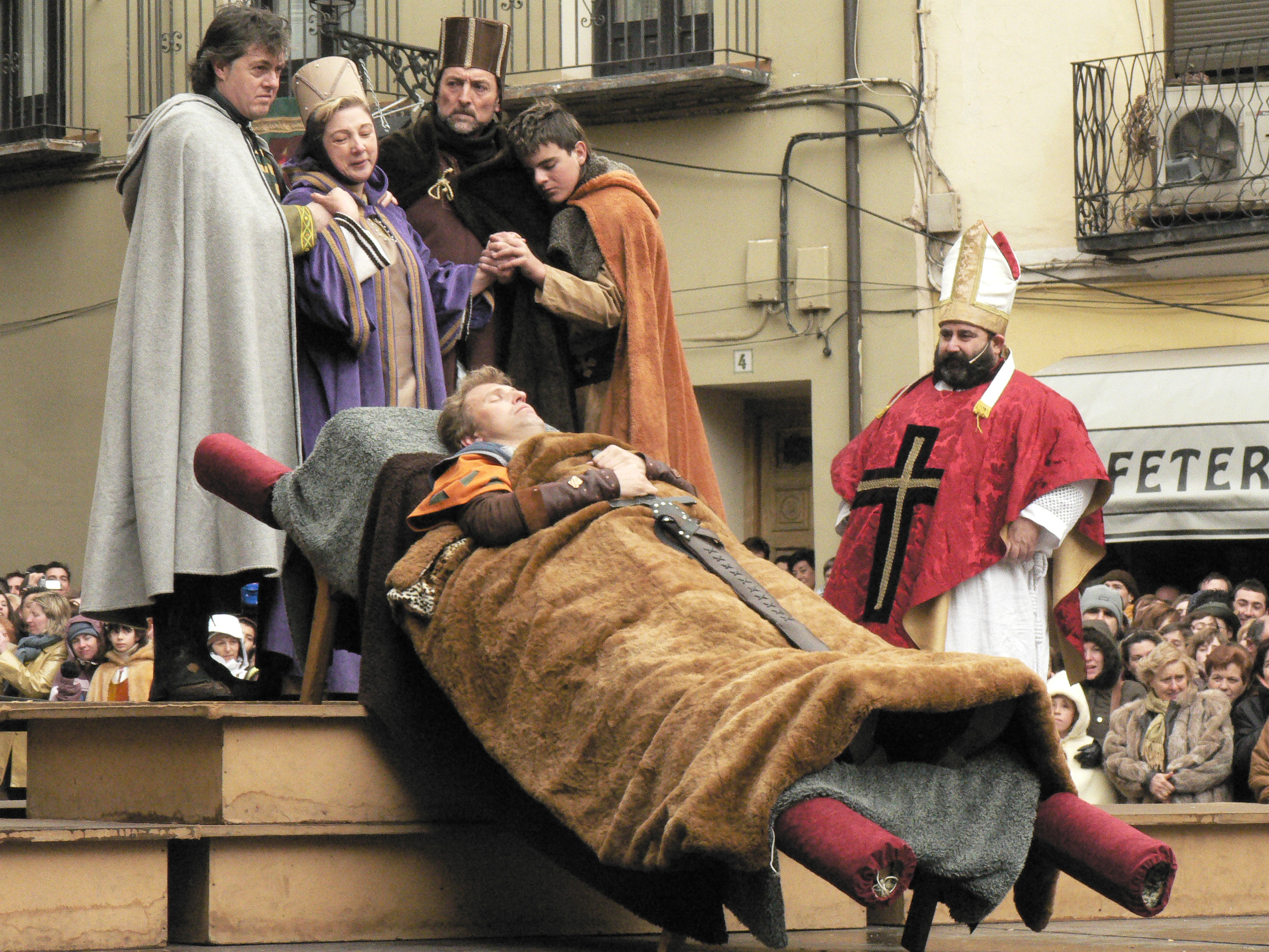 This is a photography of a Folklore festival in Spain (Wikidata id Q23657061).